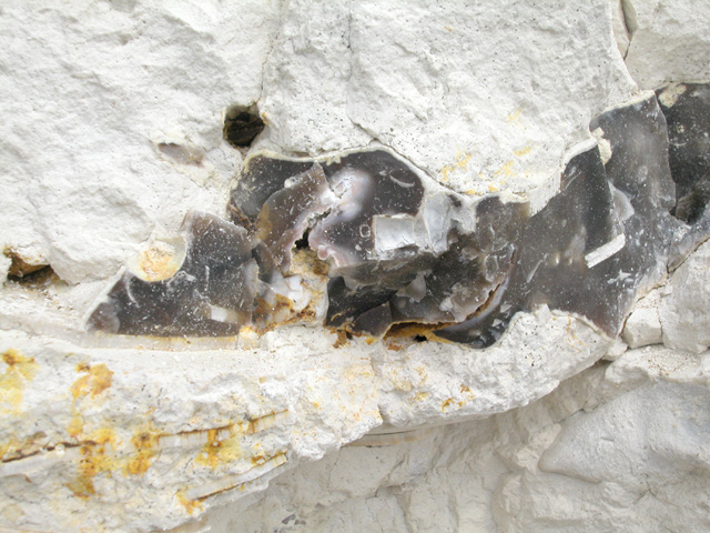 Flint layer Close up of flint layer in chalk cliff.